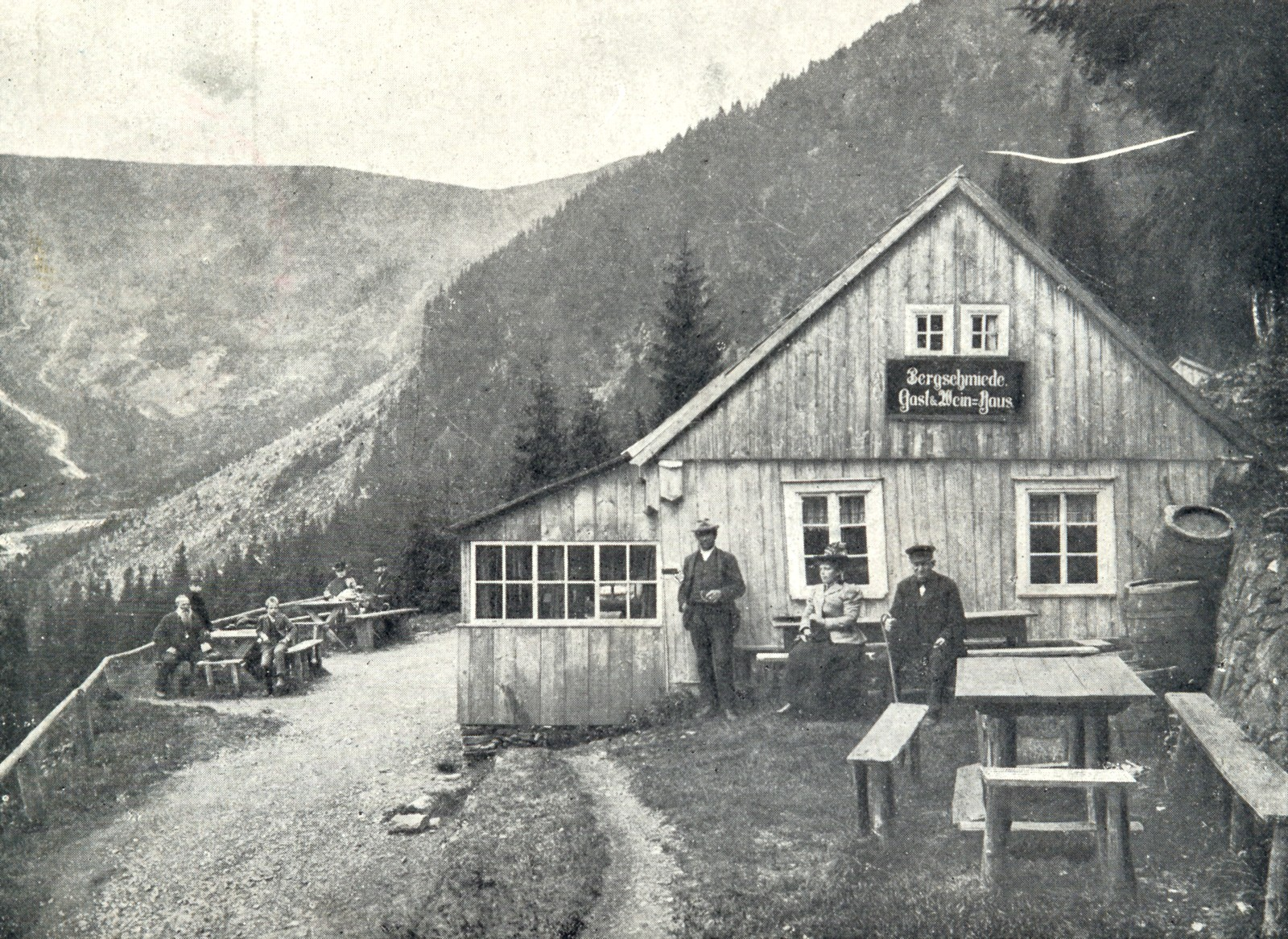 Kovarna huts